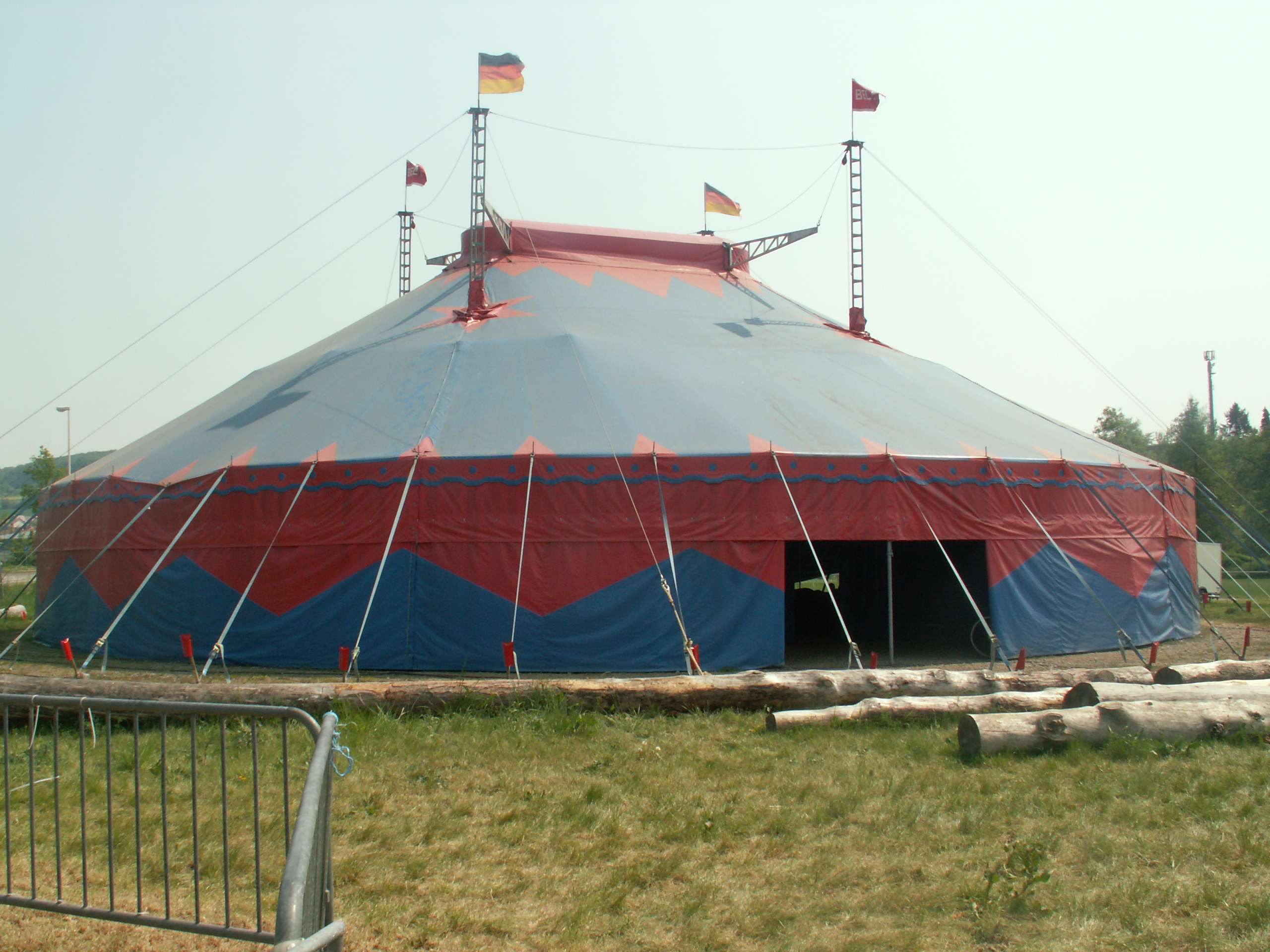 The tent of Circus Bely (Exterior view)